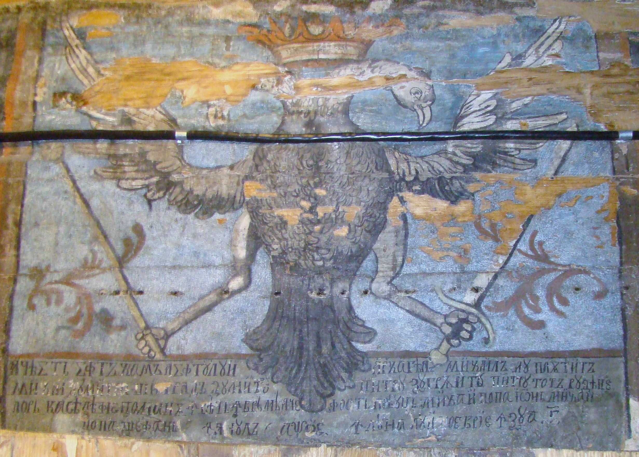 Wooden church in Borșa, Maramureș county, Romania